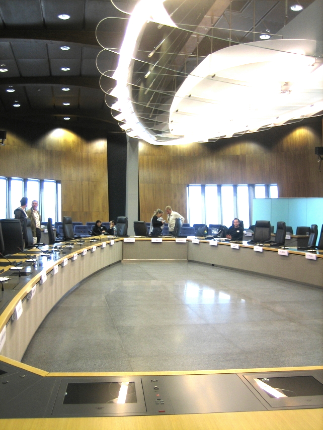 Main meeting room of the European Commission in the Berlaymont building (13th Floor) on 2007 EU open day, tourists trying out Commissioner's chairs. View from enterance towards far windows.